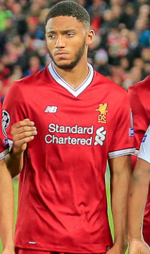 The Liverpool team line-up before the game v Spartak Moskva, December 2017.